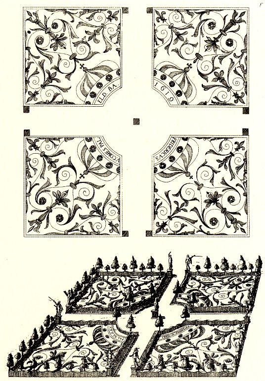 part of a historic view of Heidelberg castle gardens by Salomon de Caus